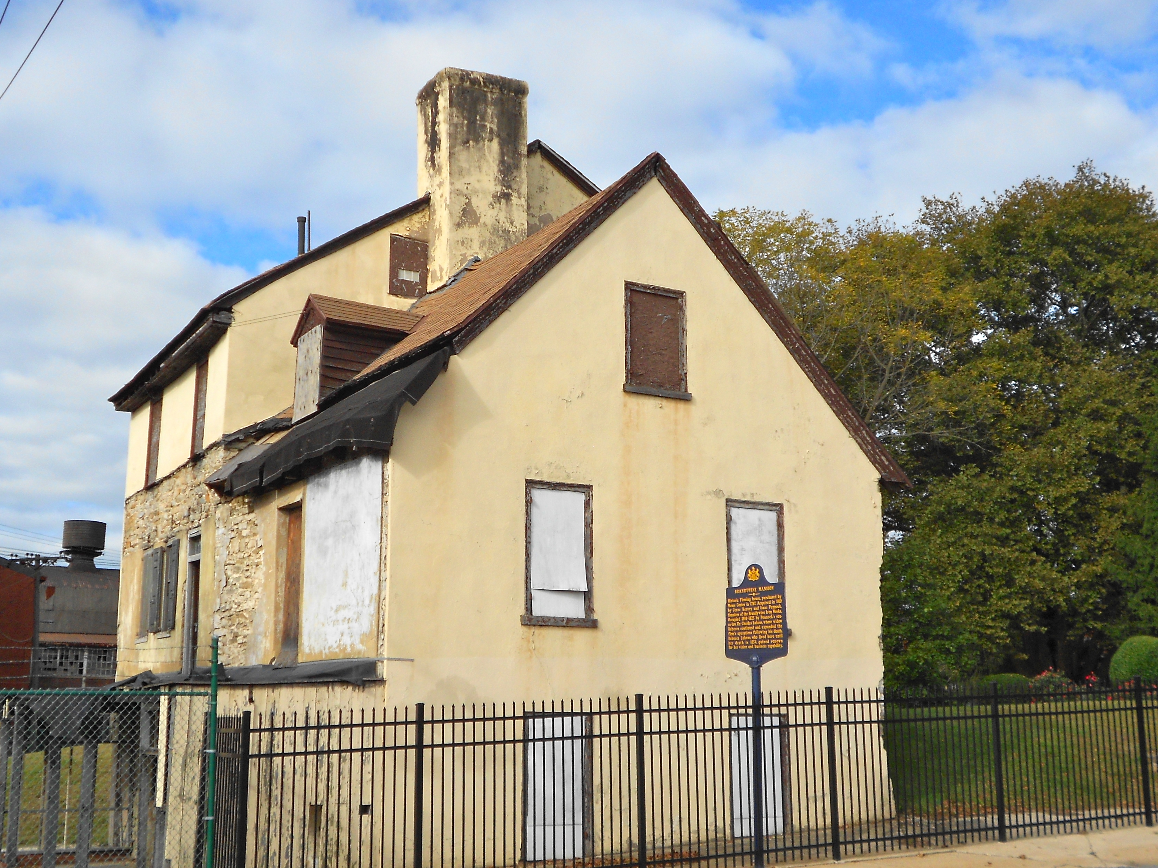 Lukens Historic District a National Historic Landmark since April 19, 1994, includes 50, 53, 76, and 102 South 1st Street, Coatesville, Chester County, Pennsylvania. This is 102 called Bradywine Mansion. George Washington is believed to have slept here on his return from the Whiskey Rebellion (only the short part of the house was built then). Rebecca Lukens lived here, while running what became Lukens Steel Co.